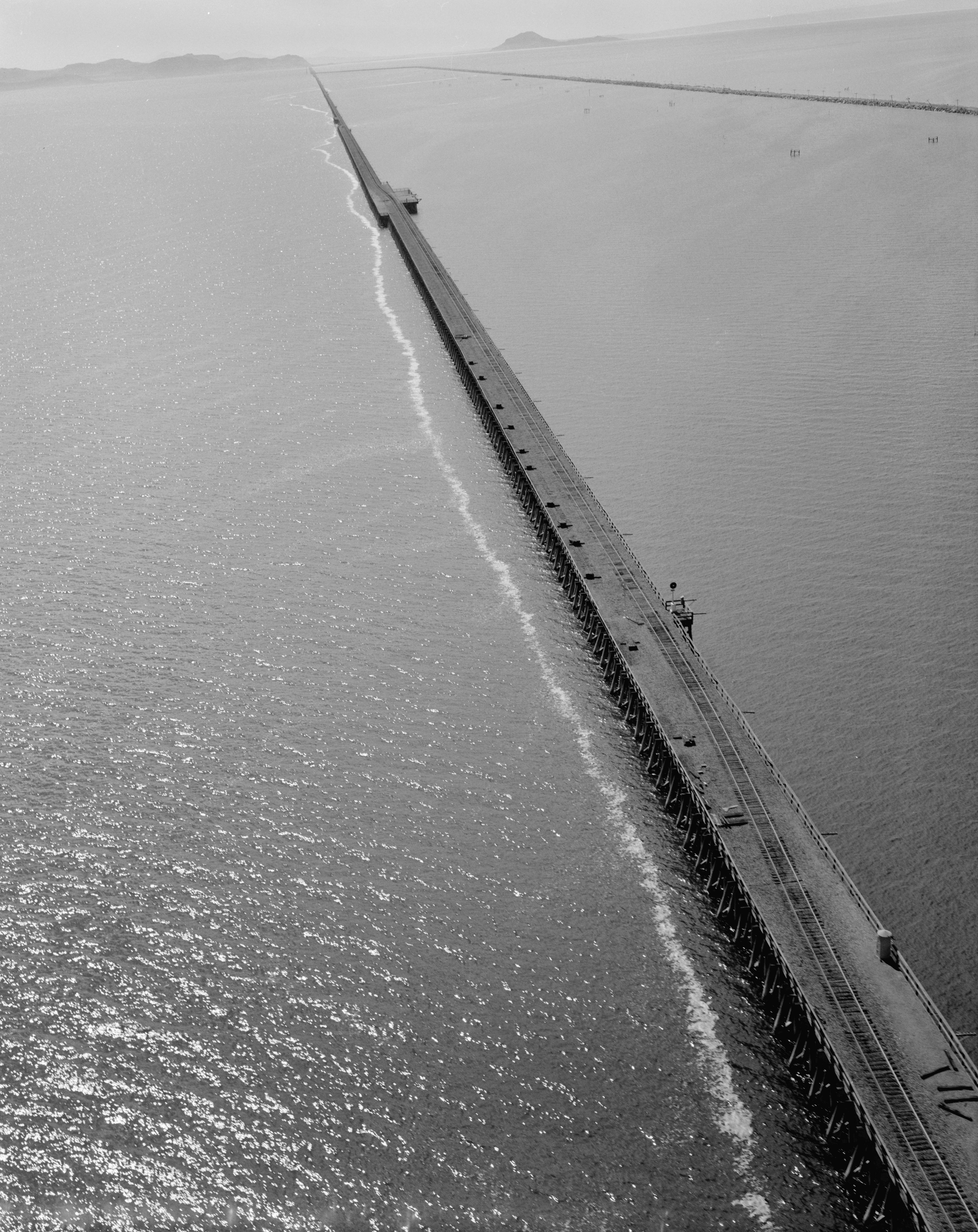 Aerial view of the Lucin Cutoff, a long trestle over the northern part of the Great Salt Lake west of Ogden in Box Elder County, Utah, United States. Built in 1902, it is listed on the National Register of Historic Places as "Southern Pacific Railroad: Ogden-Lucin Cut-Off Trestle".